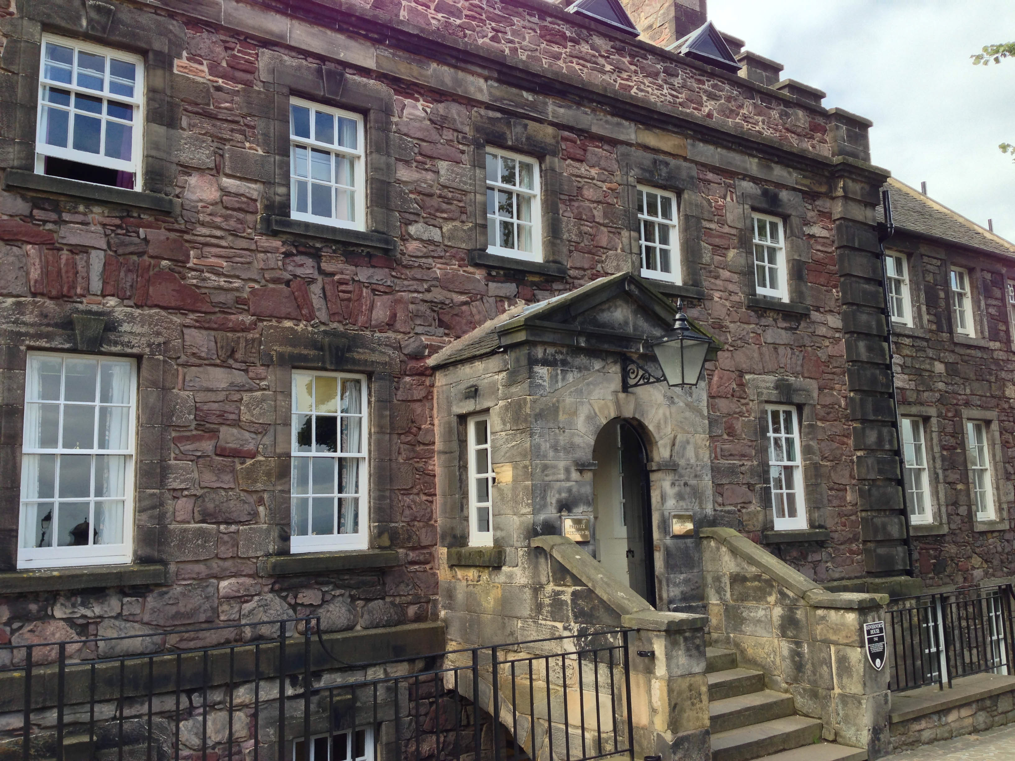 Edinburgh Castle